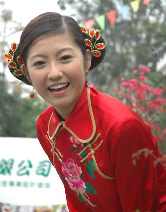 YoYo Chen at the 2005 Hong Kong Flower Show